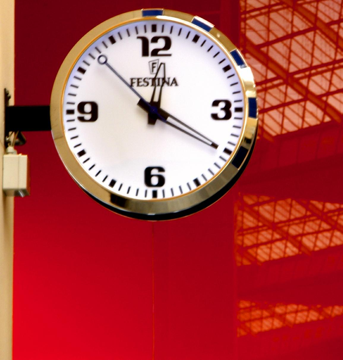 Reloj en la estación de ferrocarril de Zaragoza-Delicias (España)